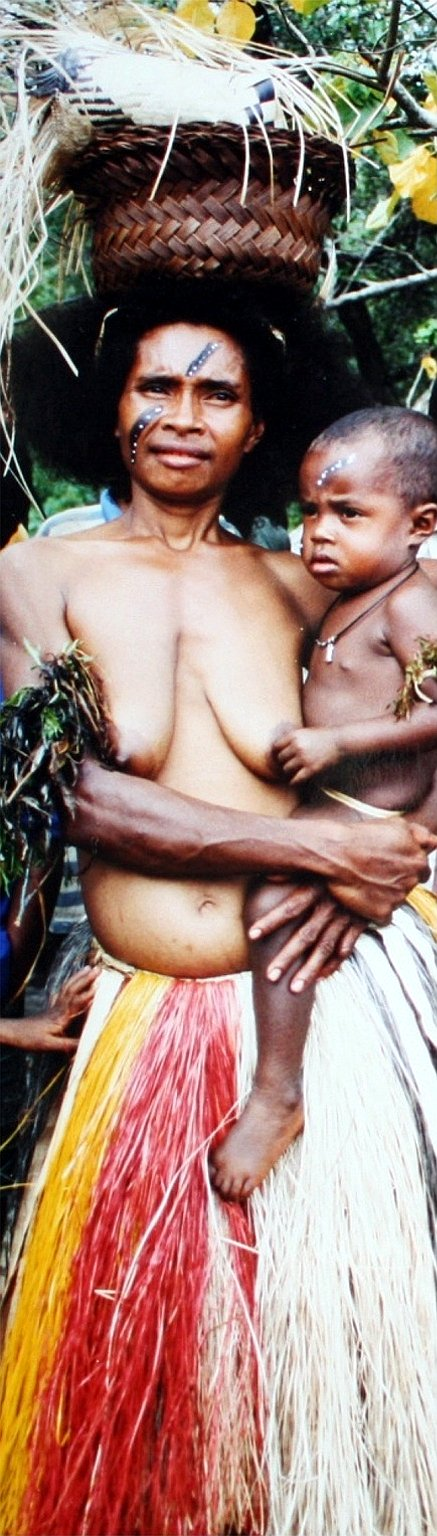 A mother and a baby at Island of Wagifa in Papua New Guinea Photograped by Brocken Inaglory